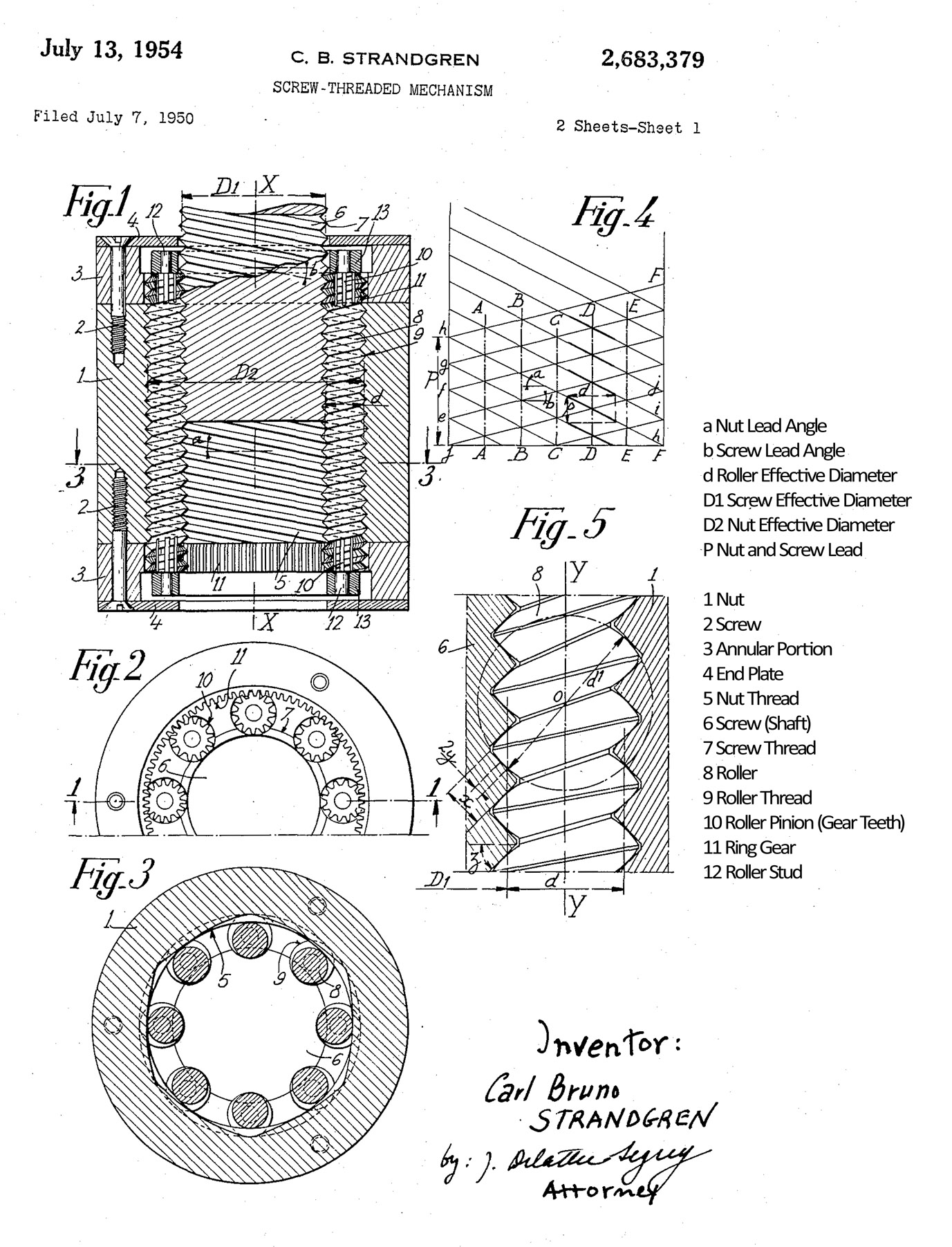 Patent Drawing for "Screw-Threaded Mechanism" original roller screw, U.S. Patent 2,683,379 (1954), with legend added.